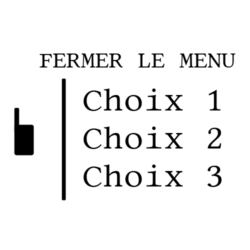 recreation of the UI of